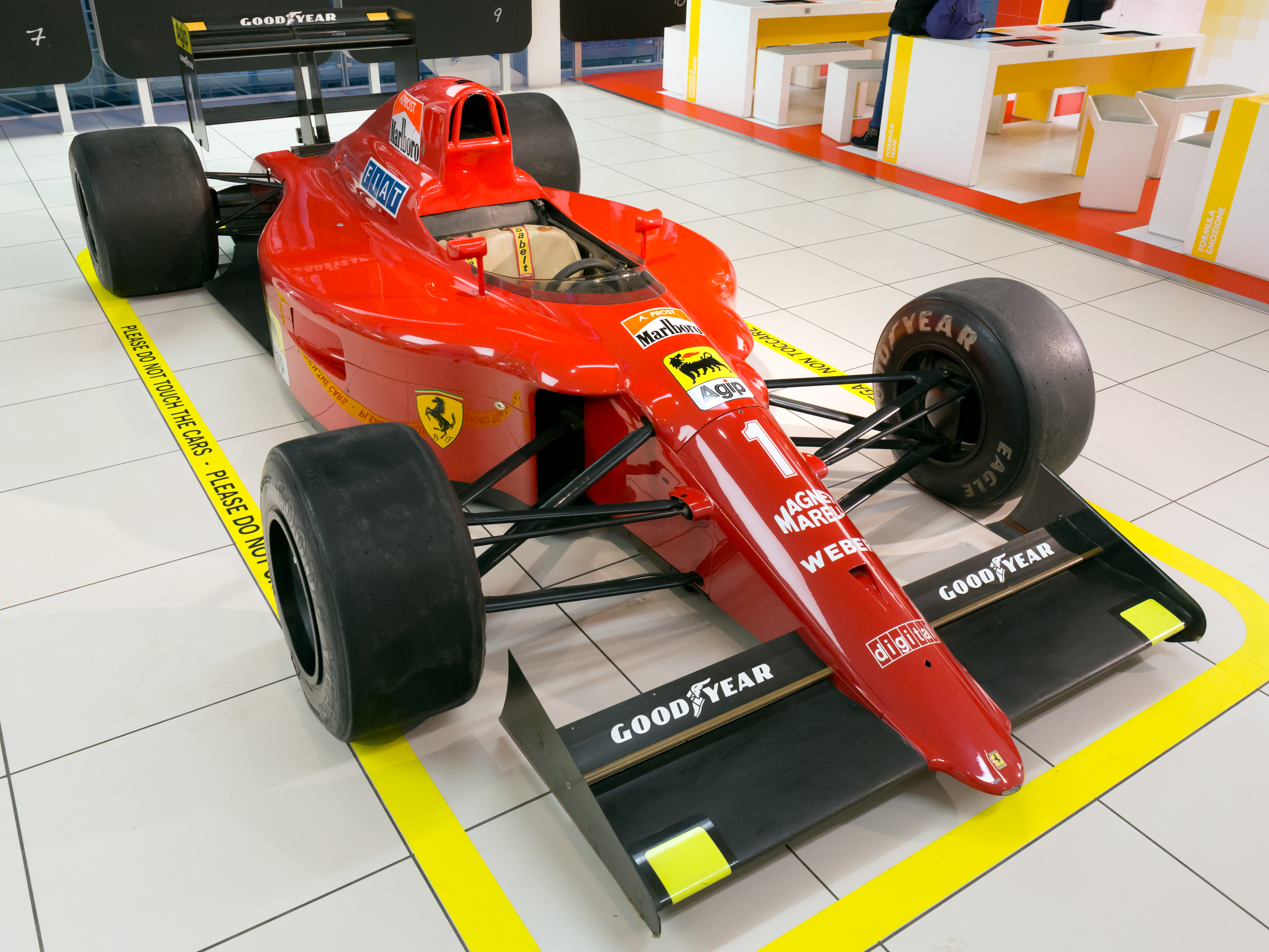 Ferrari 641/2 (chassis number 117)